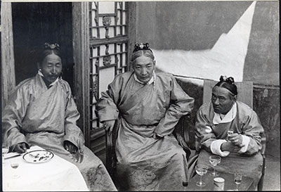 Left to right: Rai Bahadur Norbhu Dhondhup (=Norbu Döndrup), Trimon and Tsarong Dsaza (accorging to: Clare Harris & Tsering Shakya (2003) Seeing Lhasa, page 93)